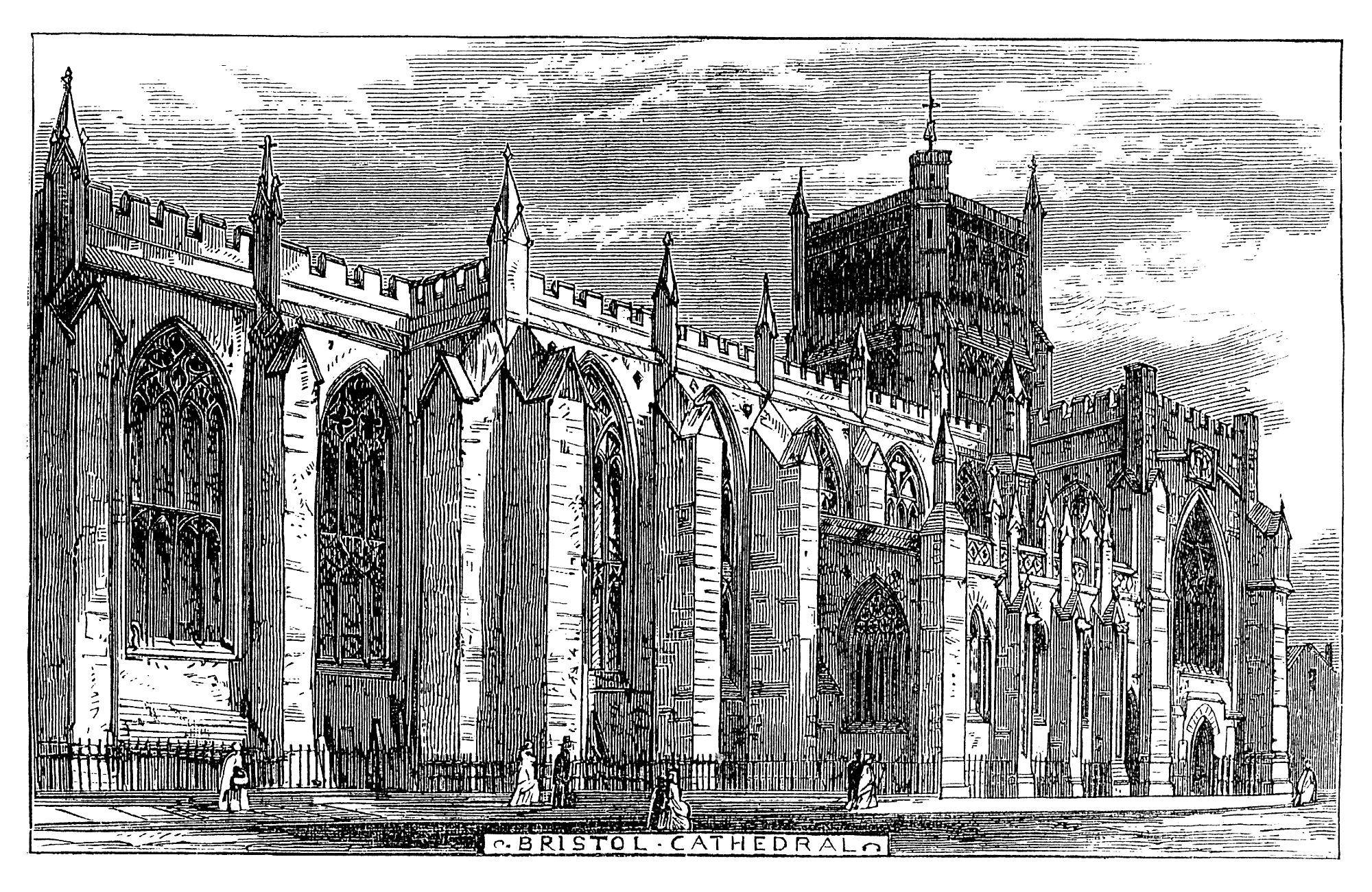 Bristol Cathedral. Cropped from Image:Bristol 1873 - Bottom half.png. (Original title "The Bristol Music Festival: Views in Bristol") This image is from before the completion of the west towers.